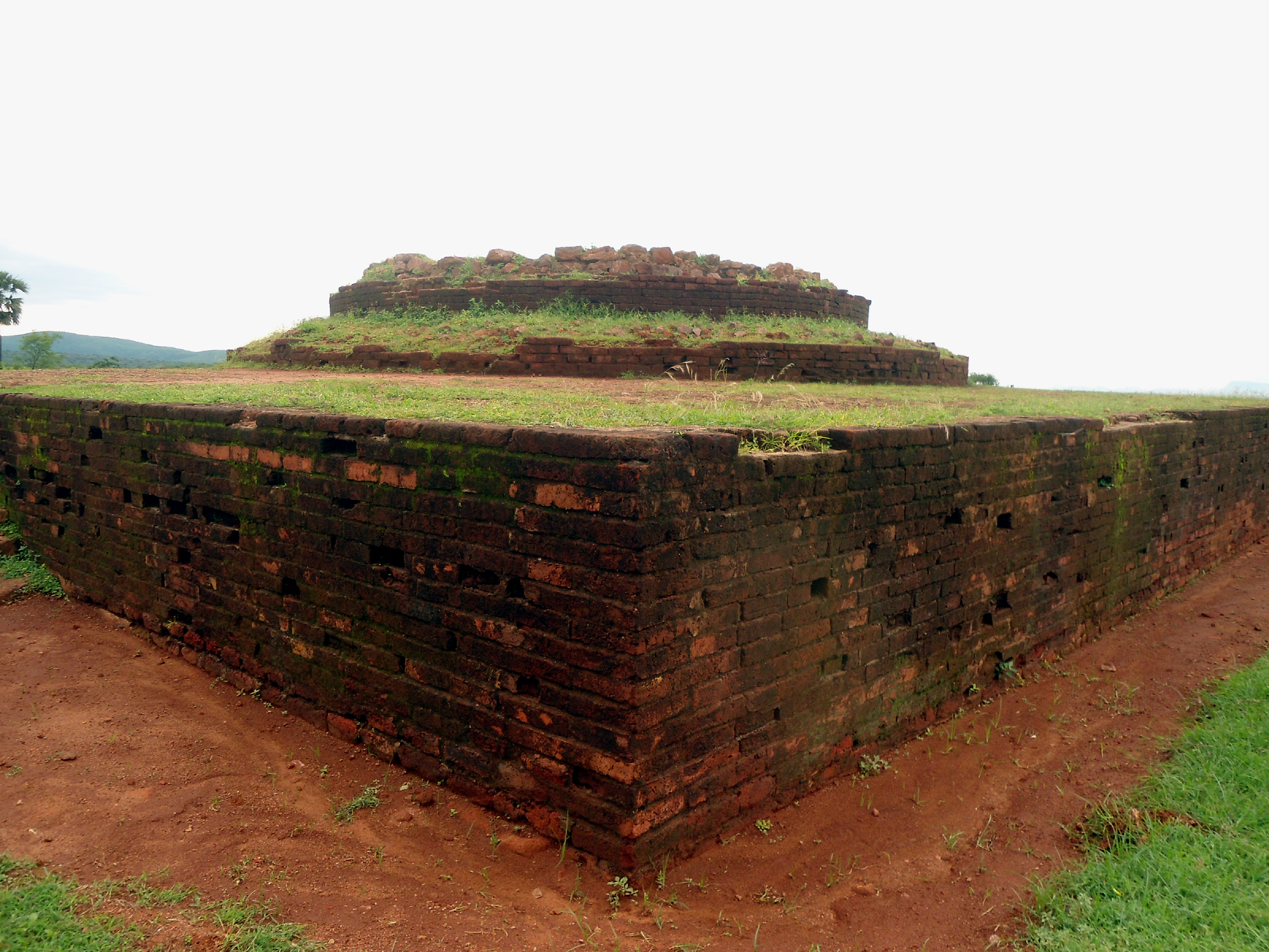 View of Maha Stupa at Thotlakonda Monastic Complex in Visakhapatnam of Andhra Pradesh